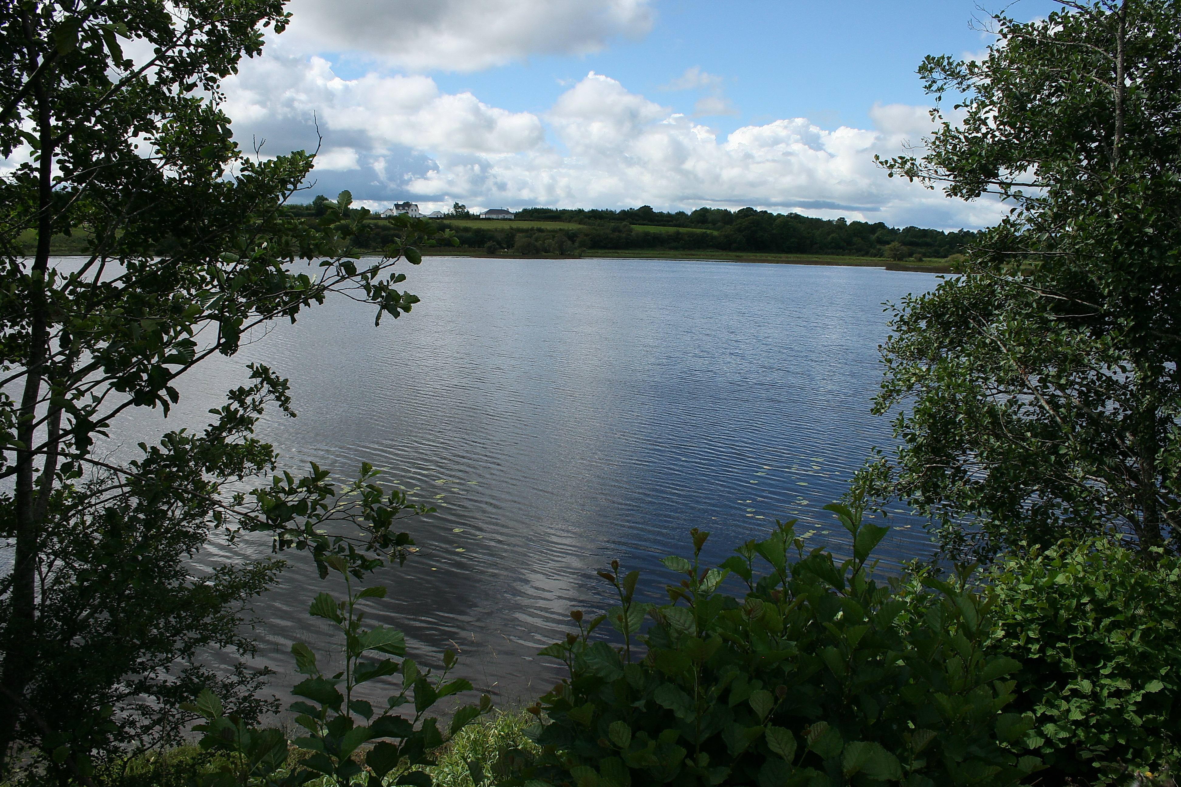 Small inter drumlin lake on the R202 near Dromod, County Leitrim